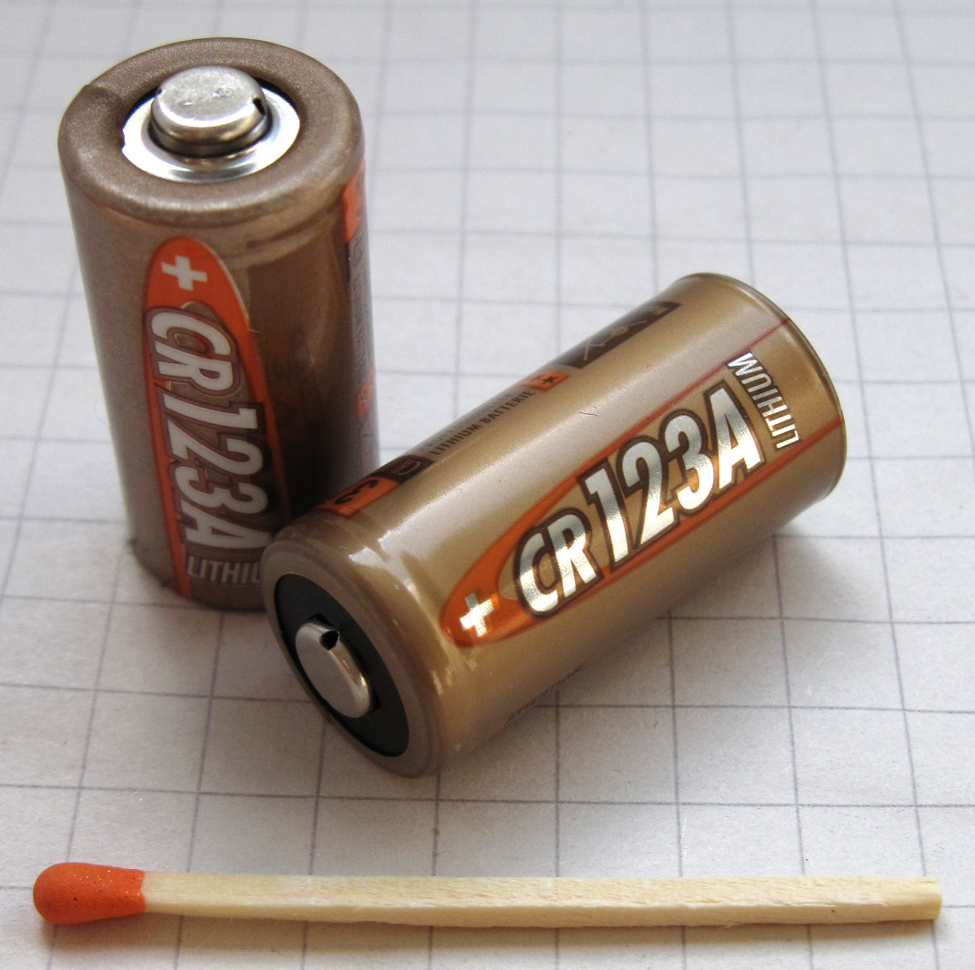 2 CR123A batteries with a matchstick for scale.